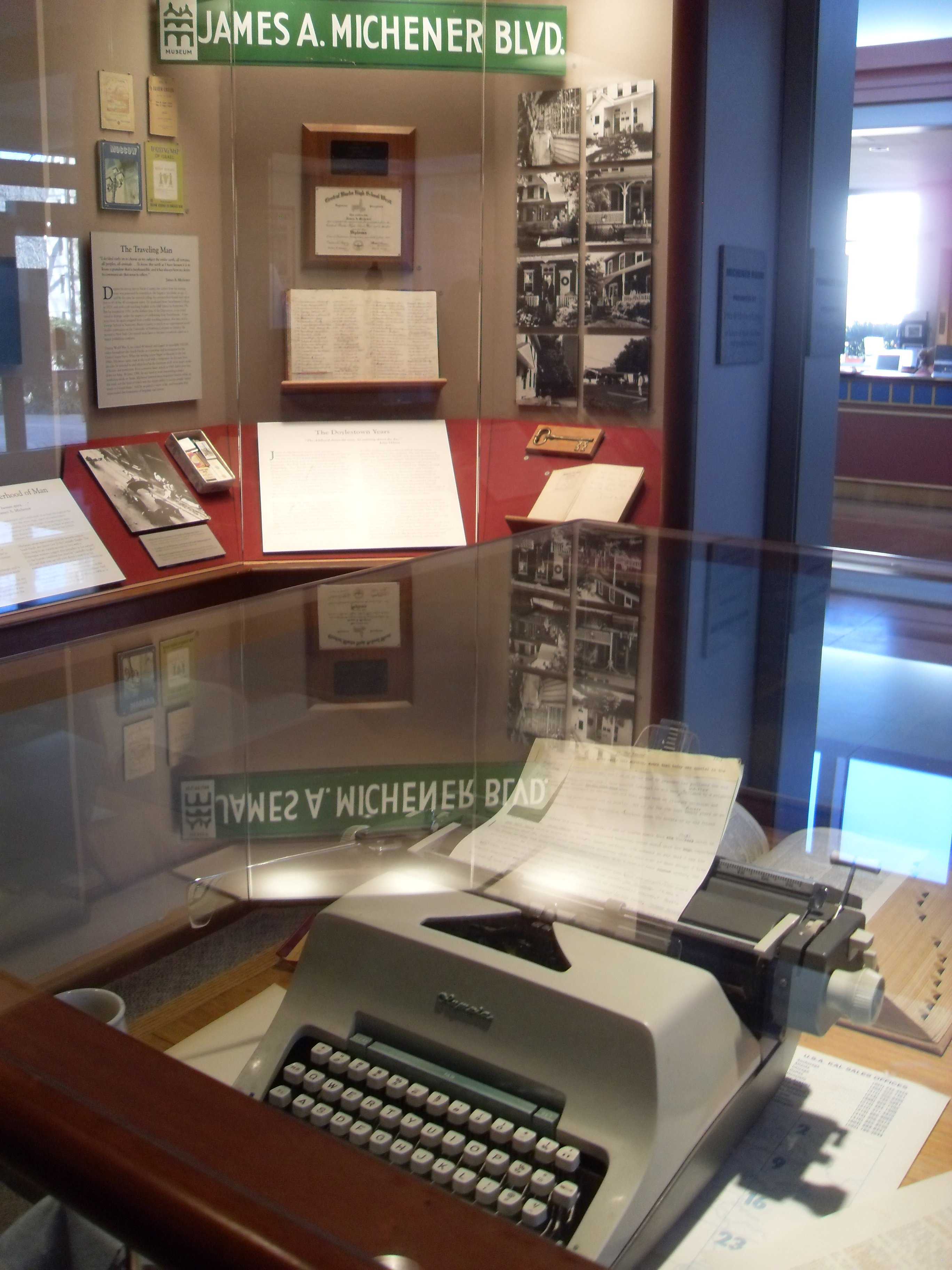 Michener memorabilia at the James A. Michener Museum, Doylestown, Pennsylvania